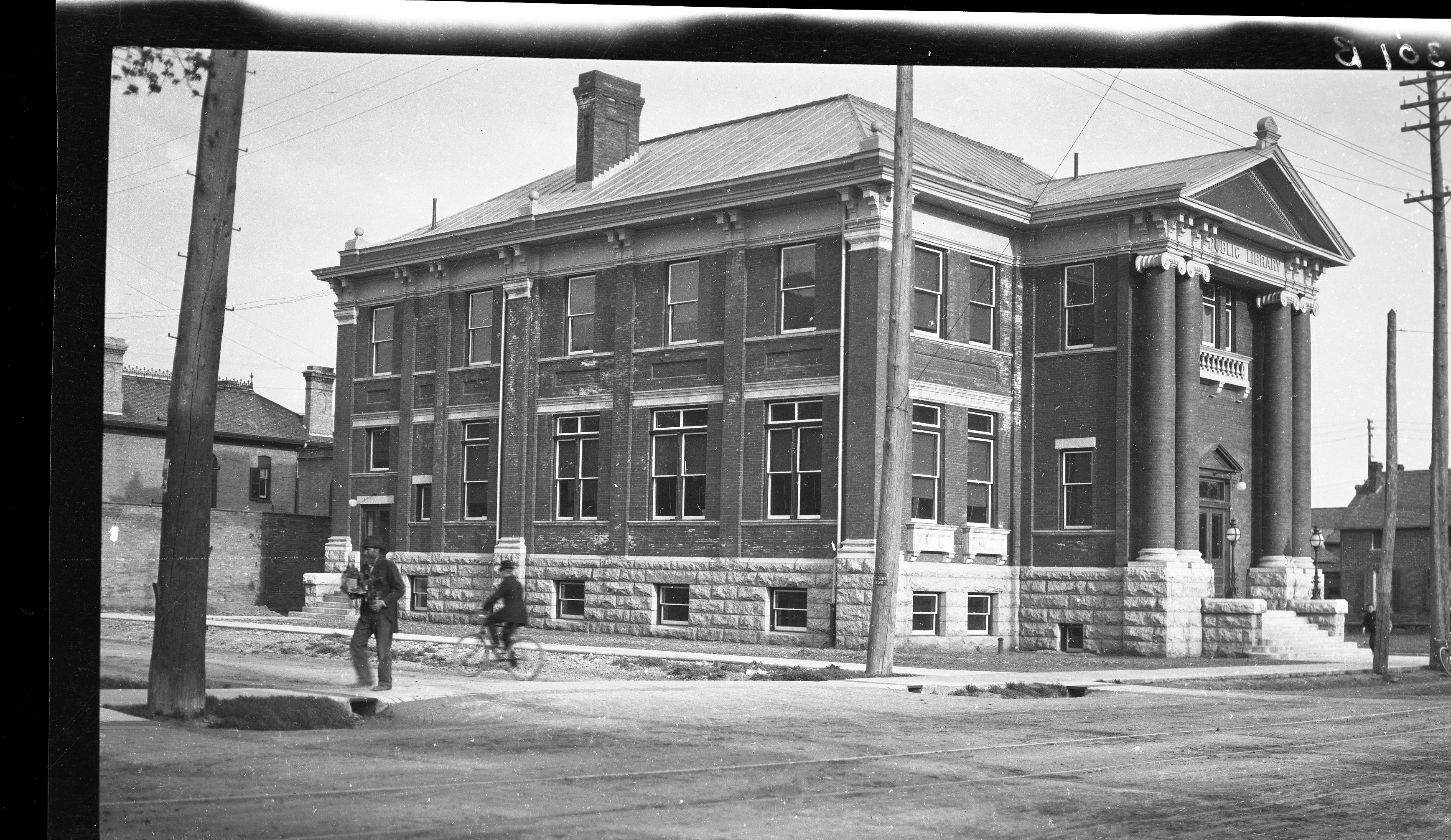 Facing onto Water Street, this building later became the north wing of the current Peterborough City Hall